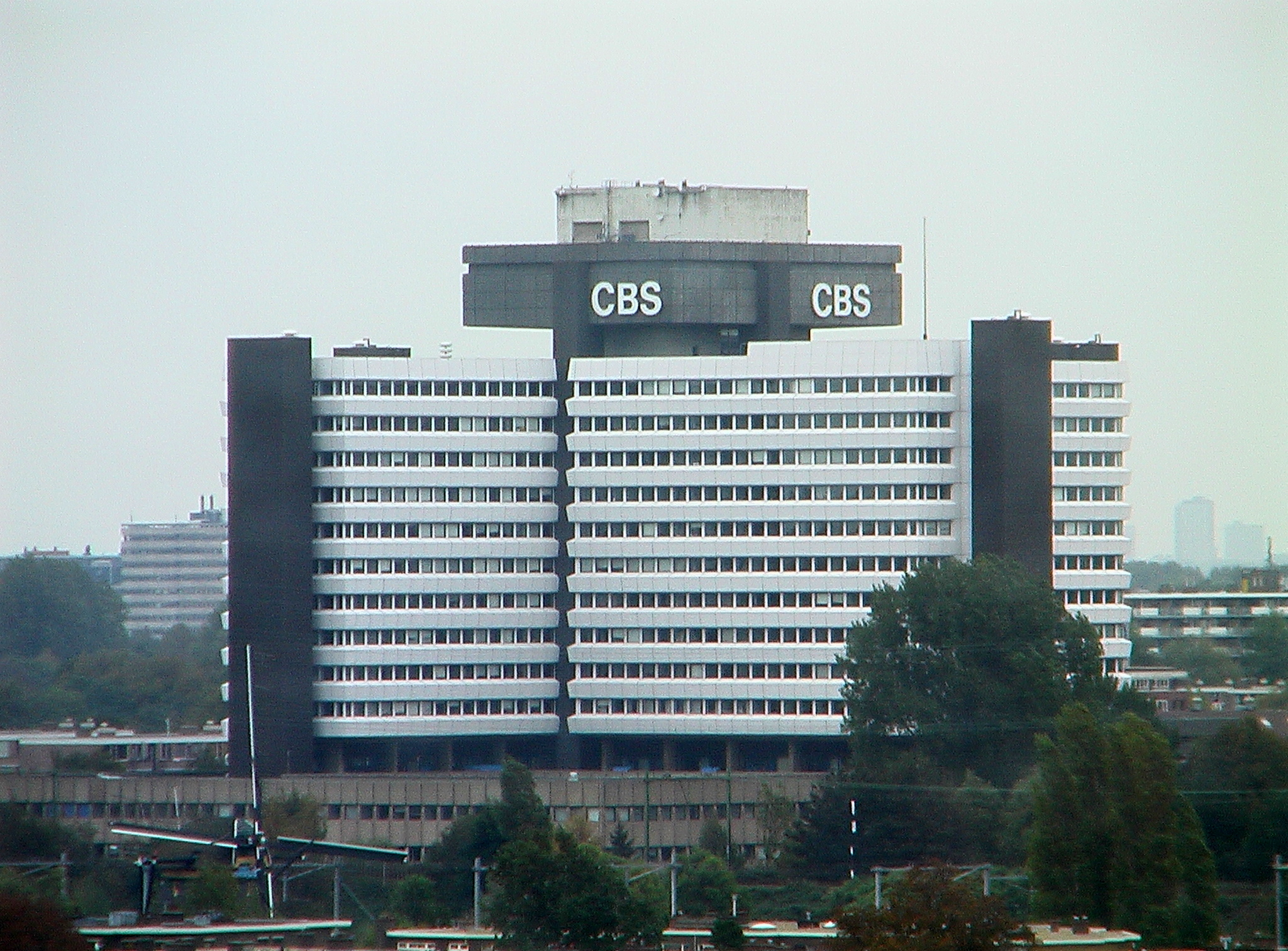 Building of the Centraal Bureau voor Statistieken in Voorburg; The Netherlands. Picture made from another building.